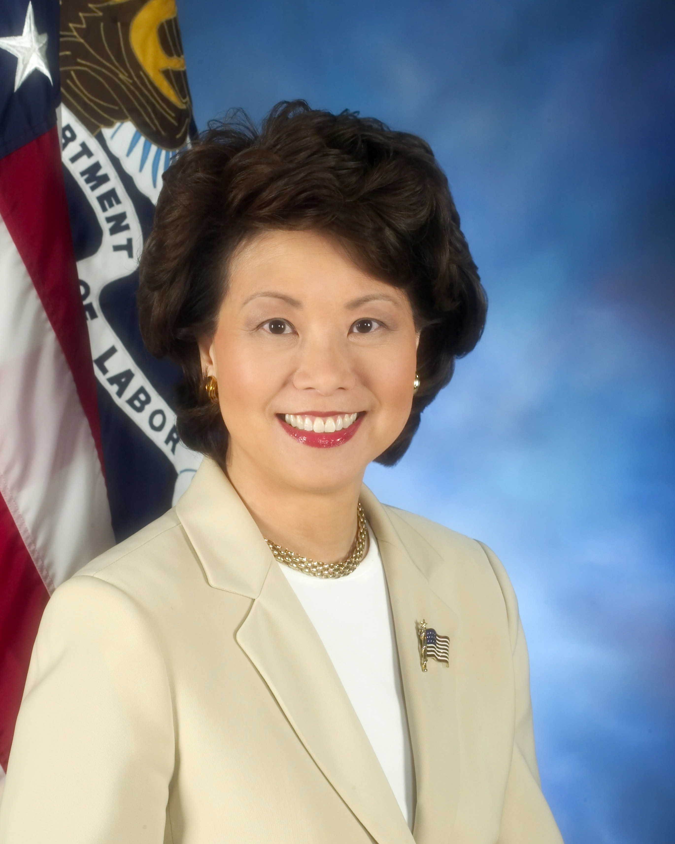 Transport Secretary Elaine Chao.